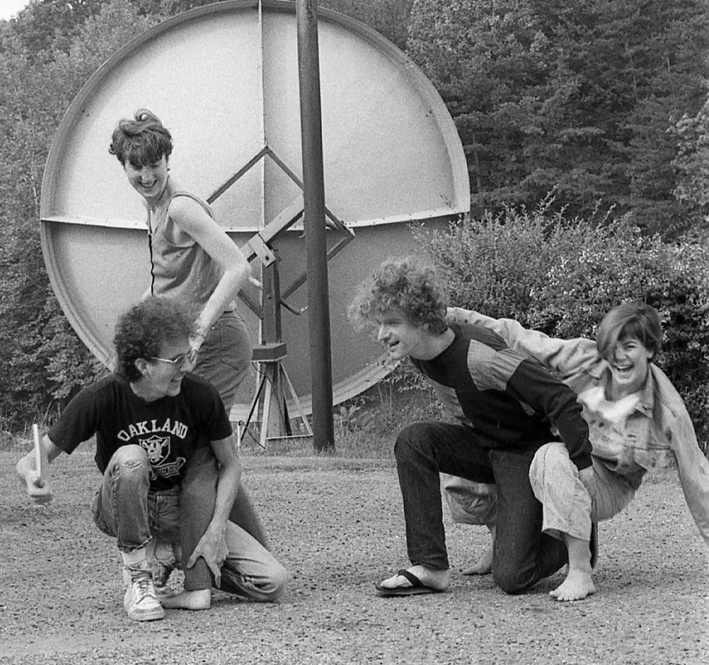 Game Theory - 1985 US tour supporting Real Nighttime LP (recorded by previous, Davis GT line-up). San Francisco GT line-up took two-week break from tour to record The Big Shot Chronicles at Mitch Easter’s Drive-In Studio in Winston-Salem, NC. Left to right: Gil Ray, Shelley LaFreniere, Scott Miller, Suzi Ziegler.